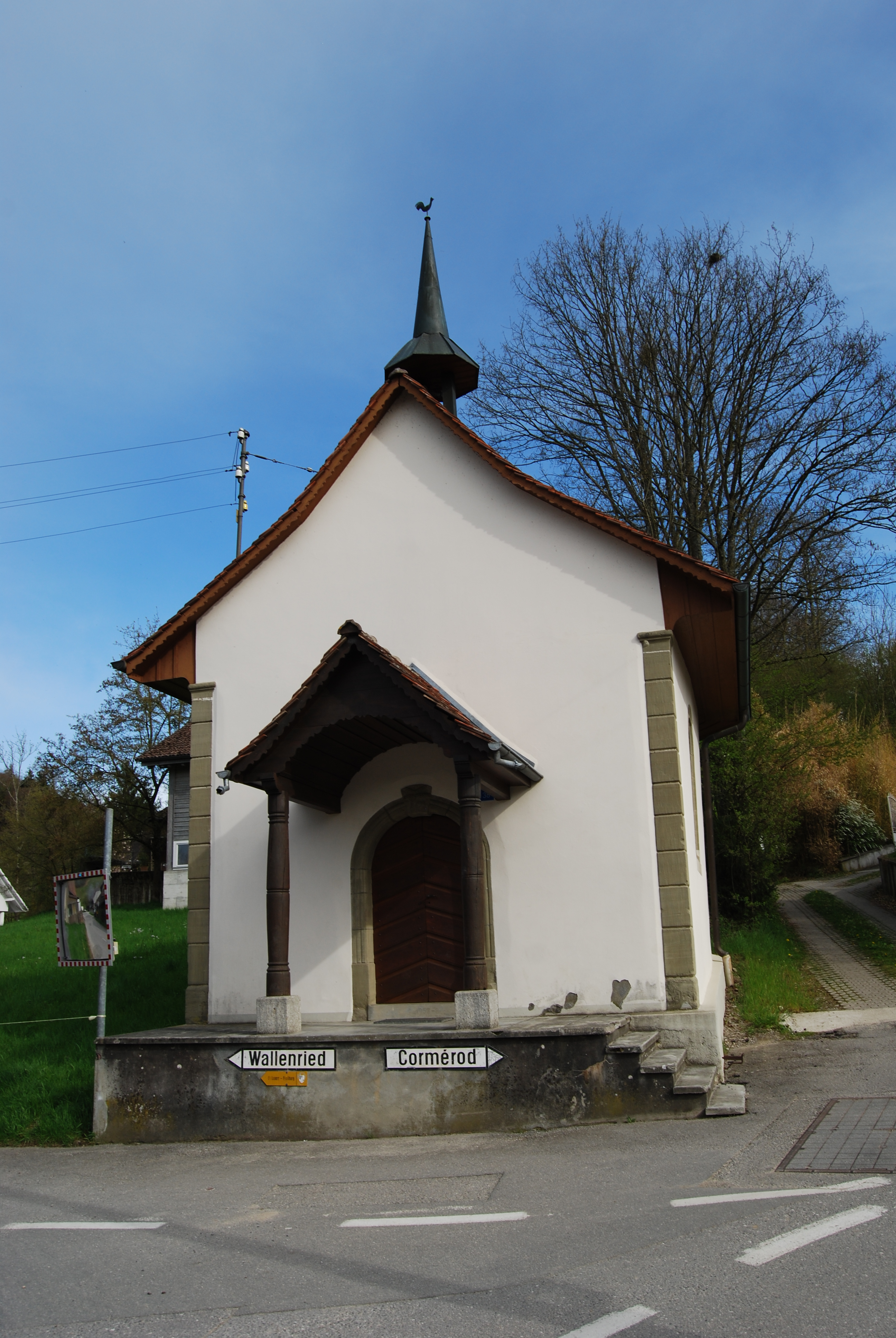 Chapel Saint-Sébastien at Chandossel, municipality Villarepos, canton of Fribourg, Switzerland